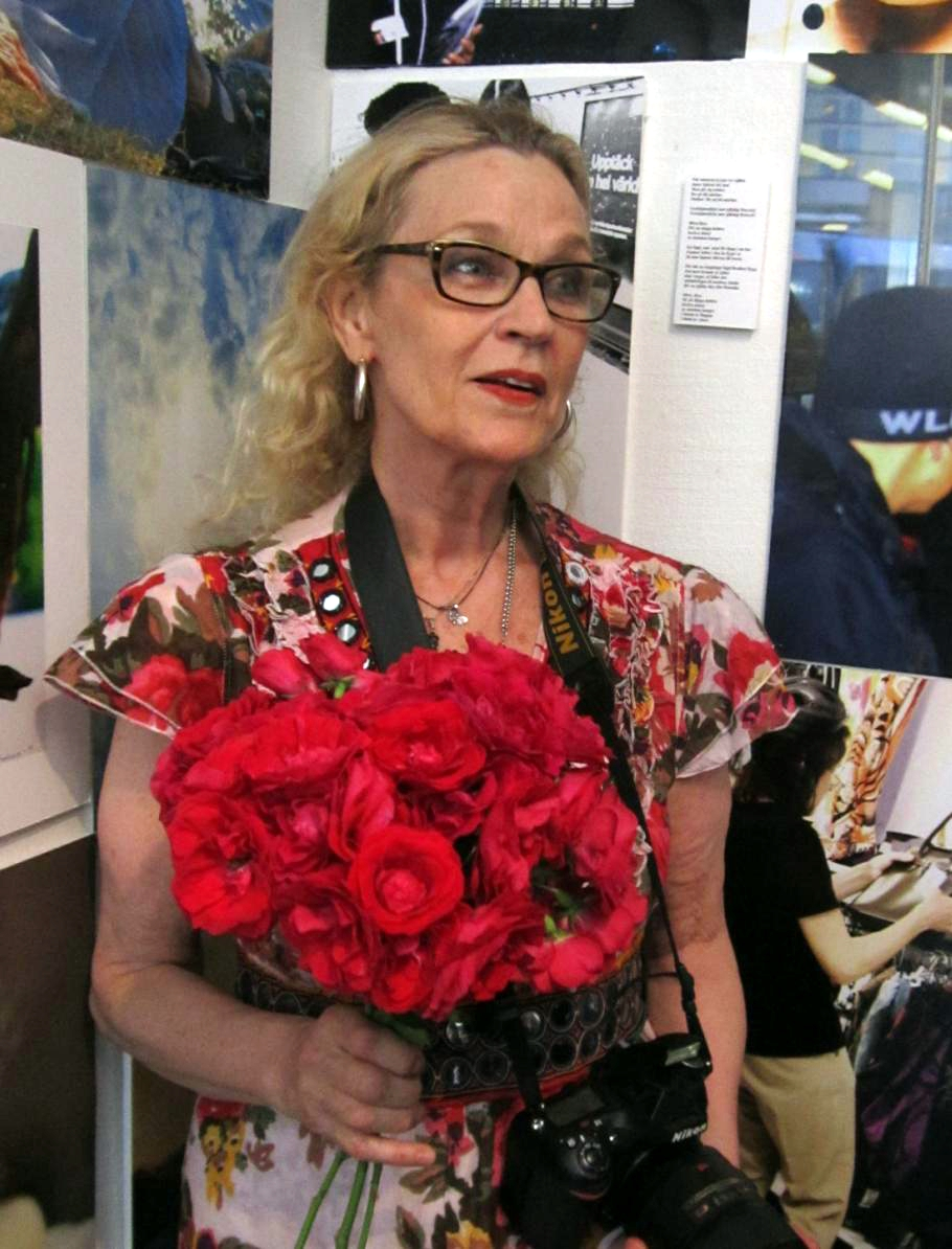 Ulla JonesPlace: Galleri TU, Stockholm, Sweden